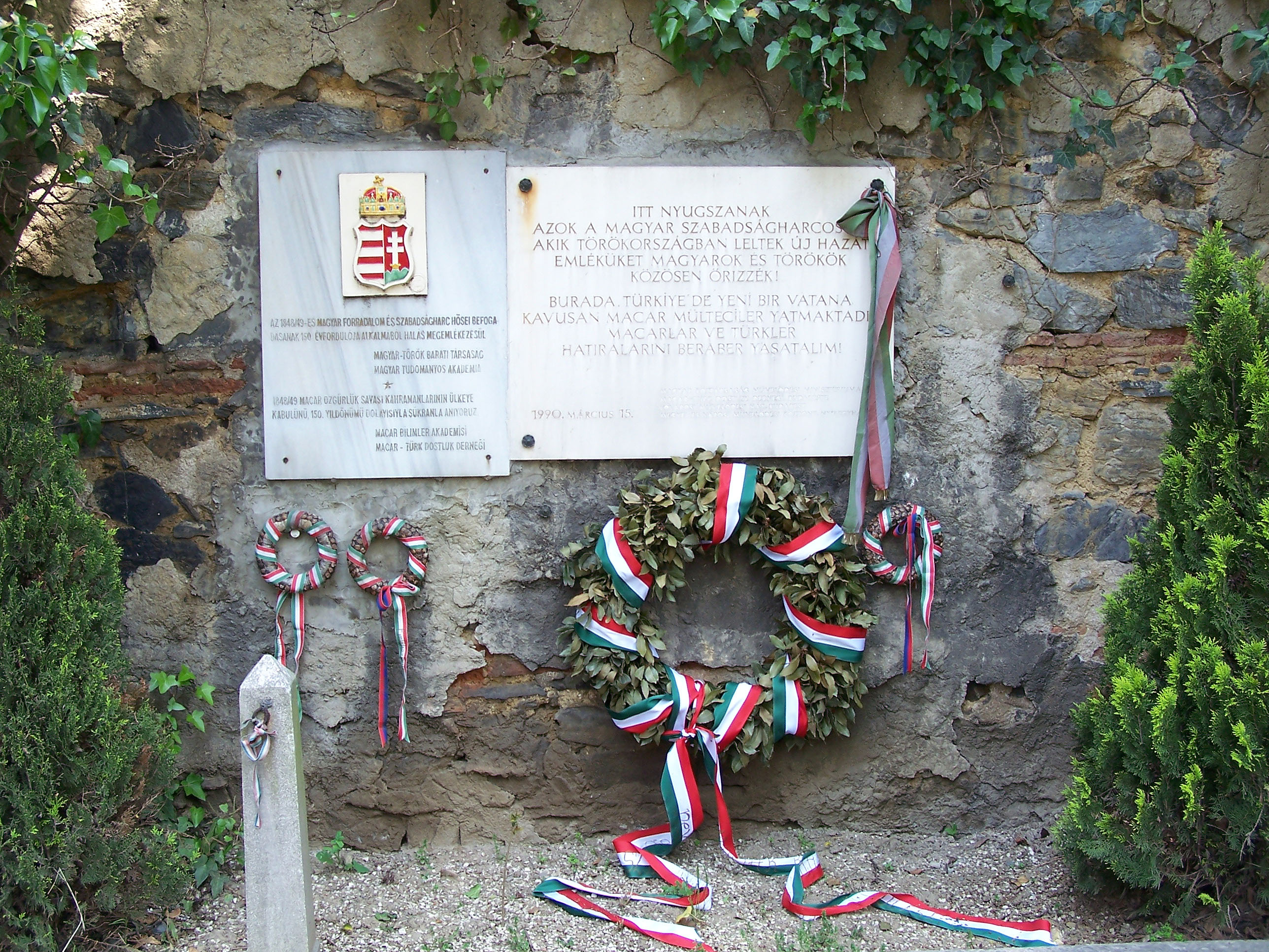 Memorial to Hungarian freedom fighters of 1848-1849 at the Protestant Cemetery in Şişli, İstanbul, Turkey